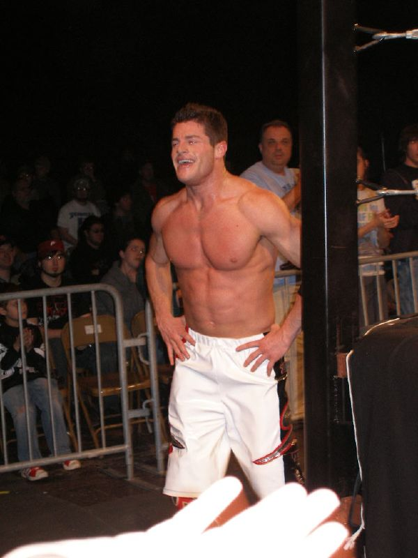 Professional wrestler Matt Sydal at a Chikara show on February 18, 2007